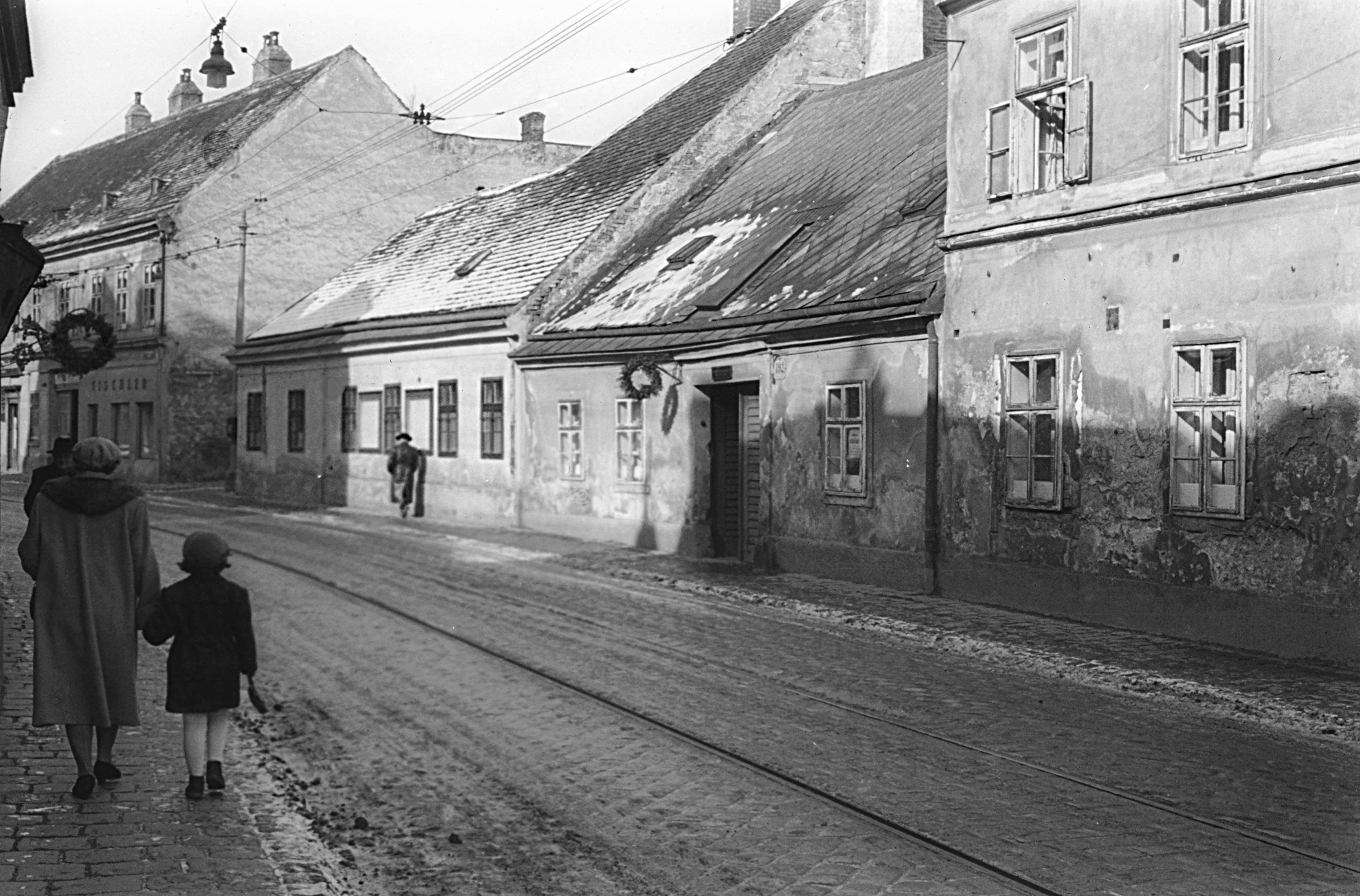 The oldest part of "Alt-Ottakring" (Ottakringer Strasse No. 192-194)